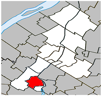 Location of Chambly, Quebec within La Vallée-du-Richelieu Regional County Municipality.